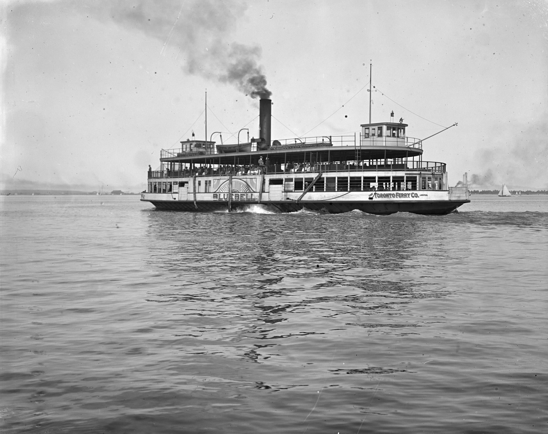 Bluebell Ferry in Toronto Harbour 1920 This image is available from the Toronto Public LibraryThis tag does not indicate the copyright status of the attached work. A normal copyright tag is still required. See Commons:Licensing for more information. English | français | +/−